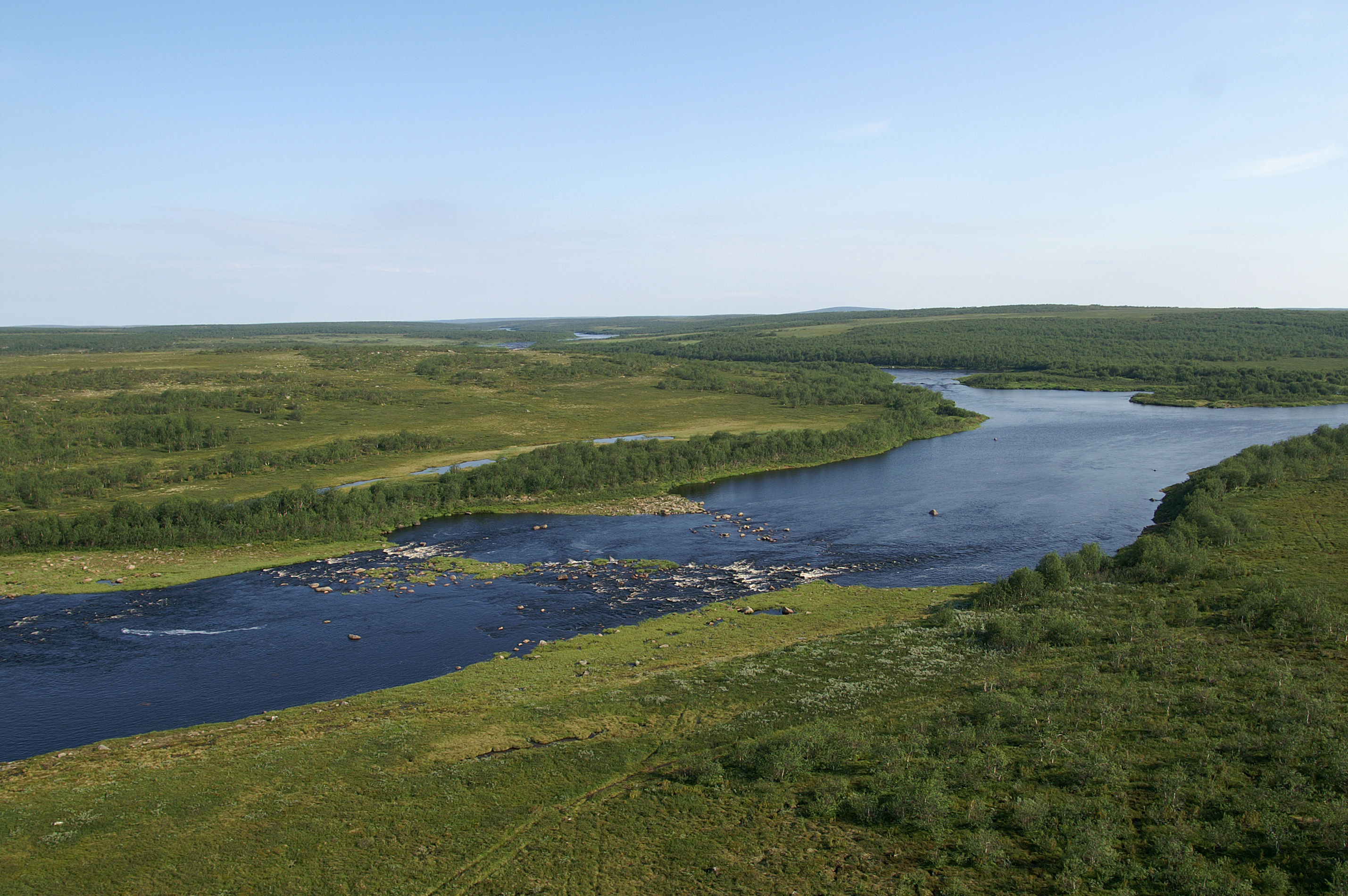 Suchaja River mouth Yokanga River